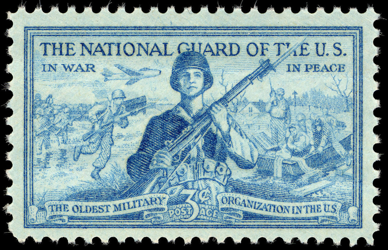 National Guard 3-cent 1953 issue U.S. stamp. The National Guard of the US - In War - In Peace - The Oldest Military Organization in the US.